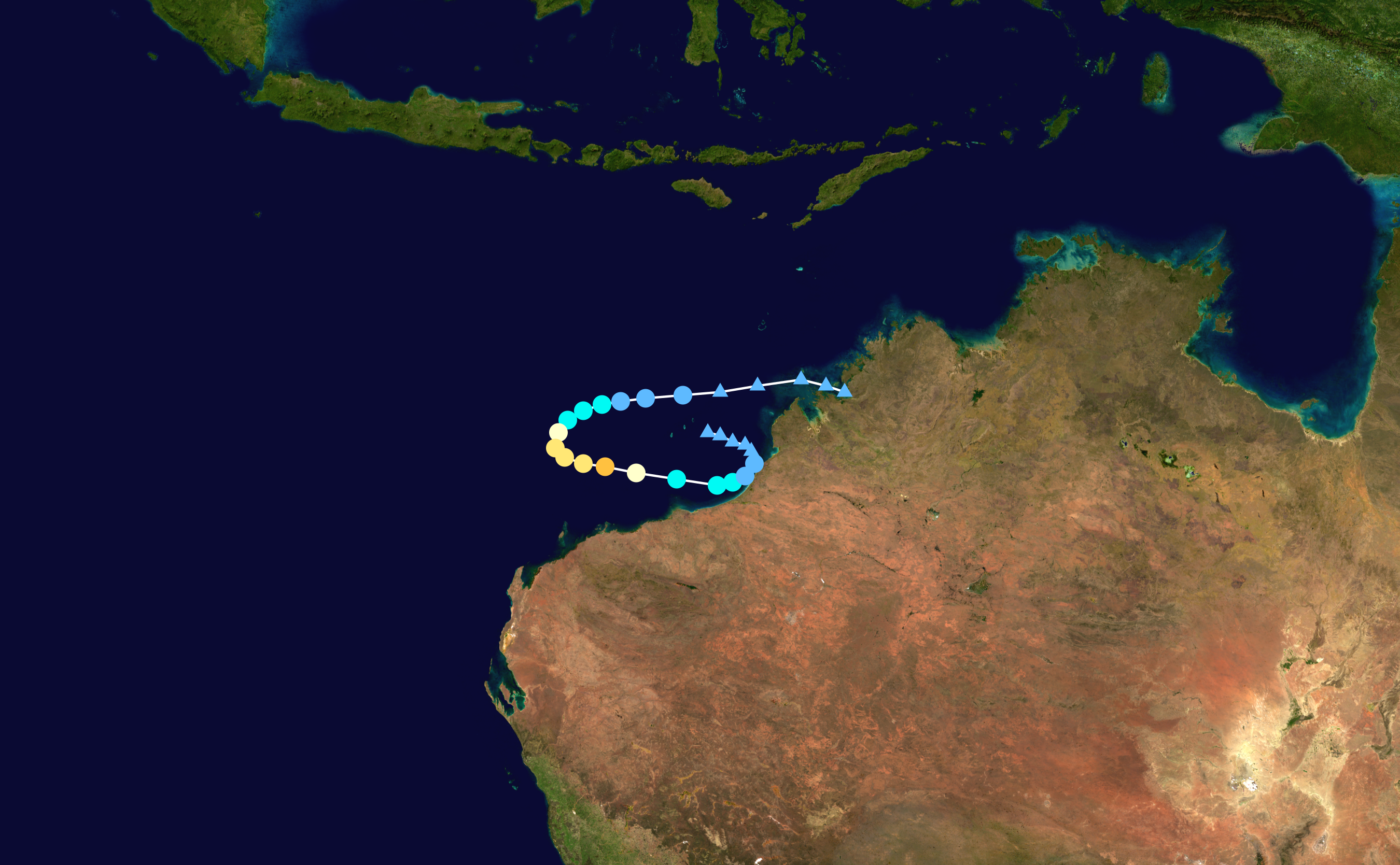 Track map of Severe Tropical Cyclone Kara of the 2006-07 Australian region cyclone season. The points show the location of the storm at 6-hour intervals. The colour represents the storm's maximum sustained wind speeds as classified in the Saffir–Simpson scale (see below), and the shape of the data points represent the nature of the storm, according to the legend below. Saffir–Simpson scale Tropical depression≤38 mph≤62 km/h Category 3111–129 mph178–208 km/h Tropical storm39–73 mph63–118 km/h Category 4130–156 mph209–251 km/h Category 174–95 mph119–153 km/h Category 5≥157 mph≥252 km/h Category 296–110 mph154–177 km/h Unknown Storm type Tropical cyclone Subtropical cyclone Extratropical cyclone / Remnant low / Tropical disturbance / Monsoon depression